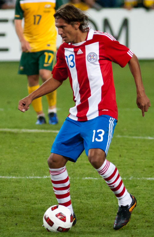 Enrique Vera playing for the Paraguay national football team in a friendly match against Australia at the Sydney Football Stadium.